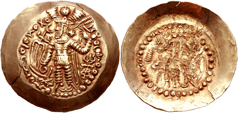 Kidarites ruler Kidara circa 425-457 CE. AV Dinar (37mm, 7.53 g). King standing left, flames at shoulders, holding trident and sacrificing at altar; filleted trident to left, tamgha and symbol to right / Siva standing facing, holding trident; behind, the bull Nandi standing left.